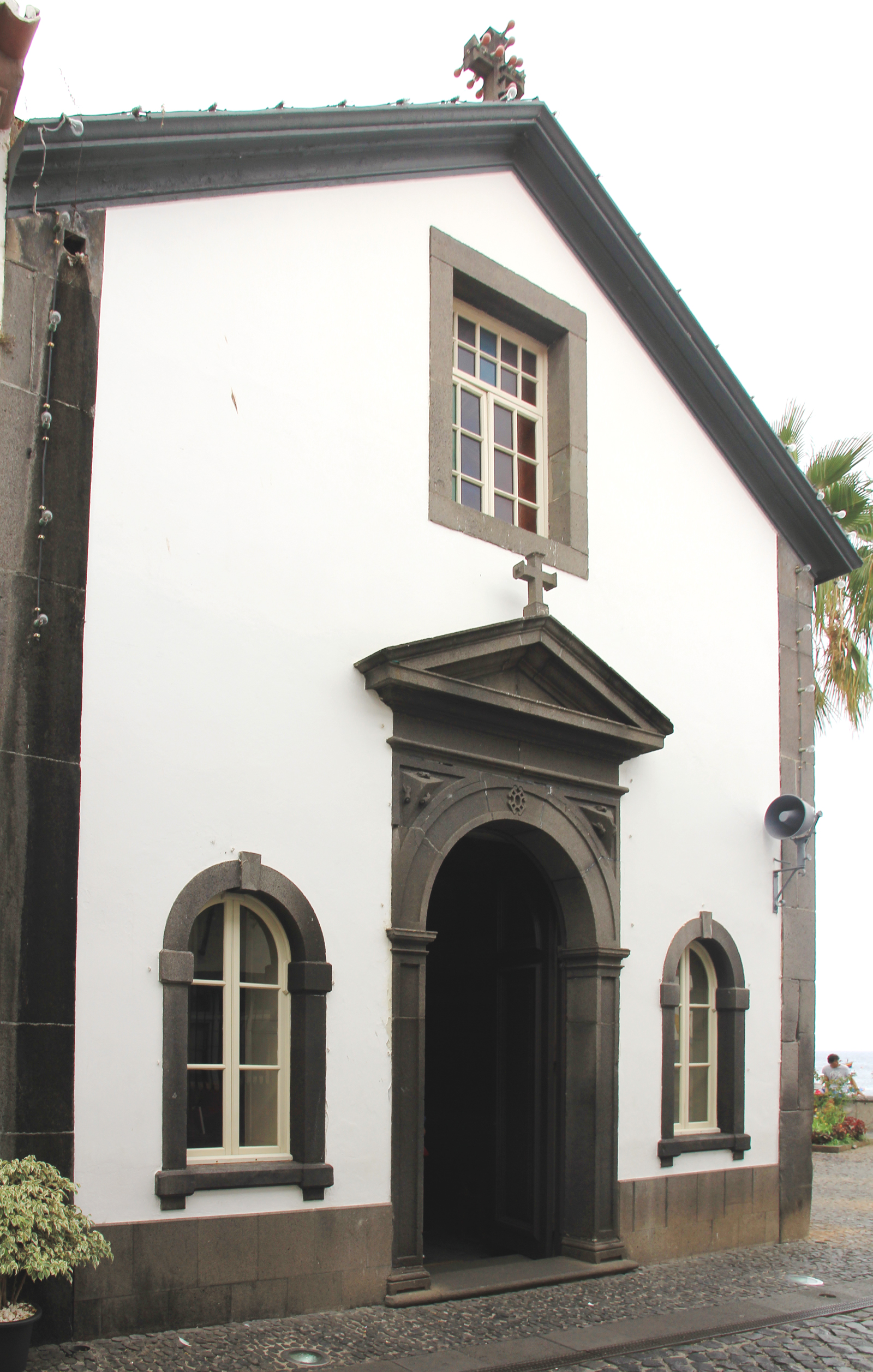 Entrance into Fishermans chapel Capela de Nossa Senhora da Conceição (Câmara de Lobos) in smal town Câmara de Lobos on the south coast of Madeira island.